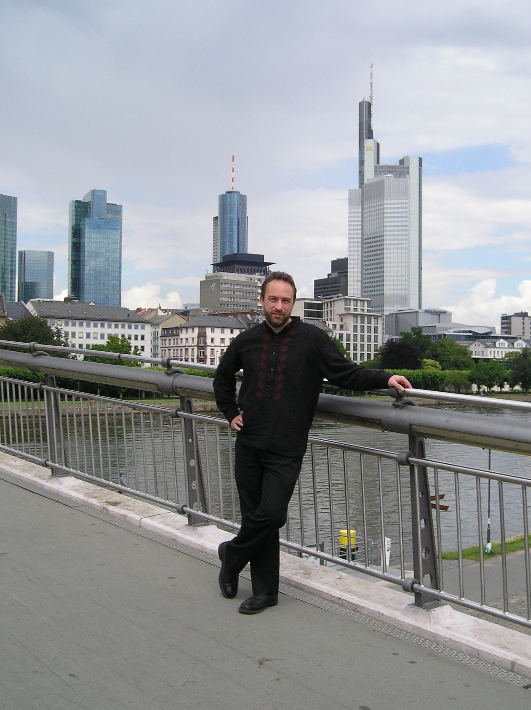 Jimmy Wales on the Holbeinsteg bridge in Frankfurt Main, Germany during a shooting break of a documentary film about Wikipedia by the French-German TV-station Arte. Behind him you can see the river Main and the sky scrapers of Frankfurt.